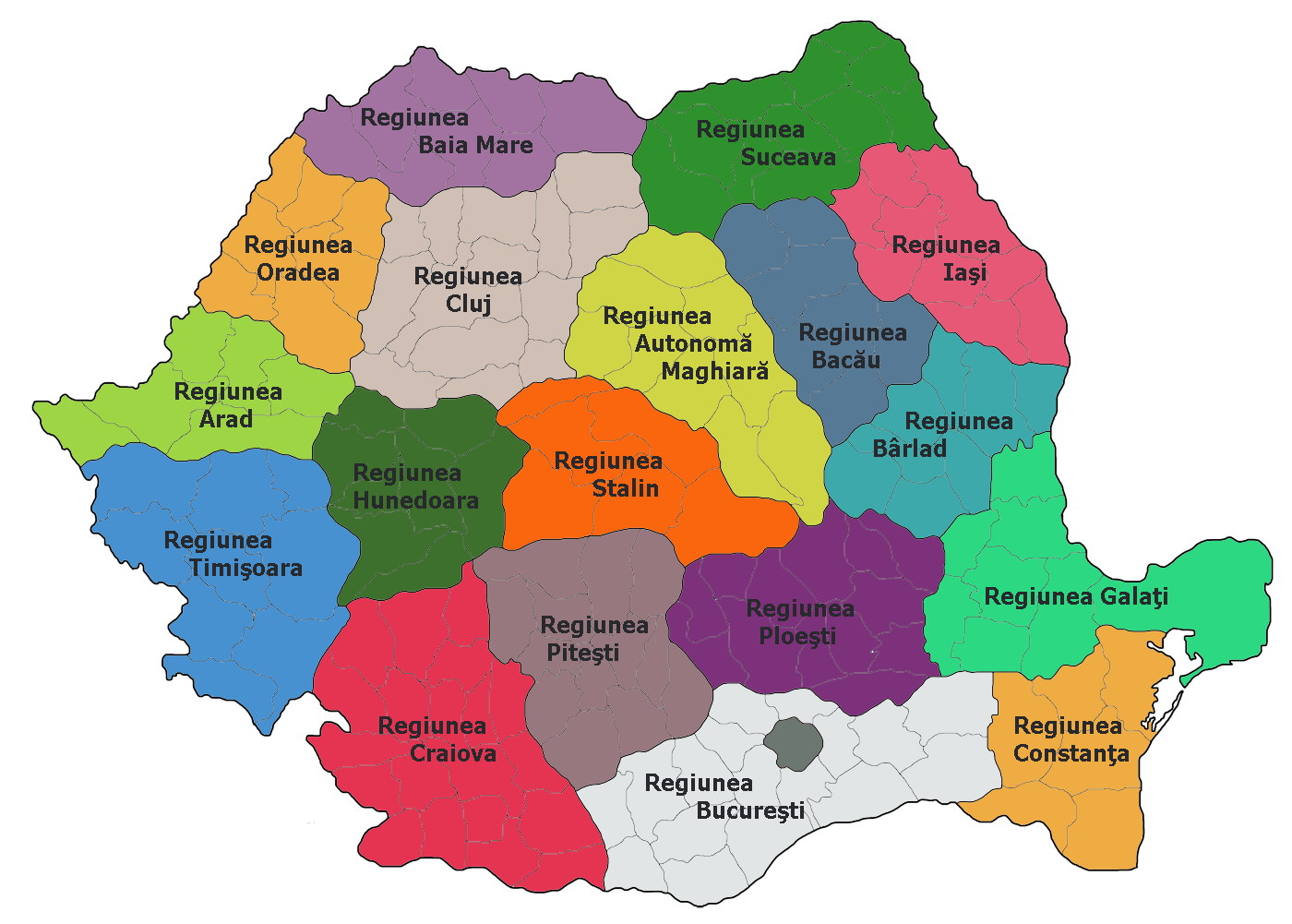 Administrative map of Romania, 1952-1956 Bucharest had a special status of "town subordinated to the Republic" Each region bears the name of the capital city, except: Autonomous Hungarian Region — Târgu Mureş Hunedoara Region — Deva. Stalin Region — Oraşul Stalin (actual Braşov)